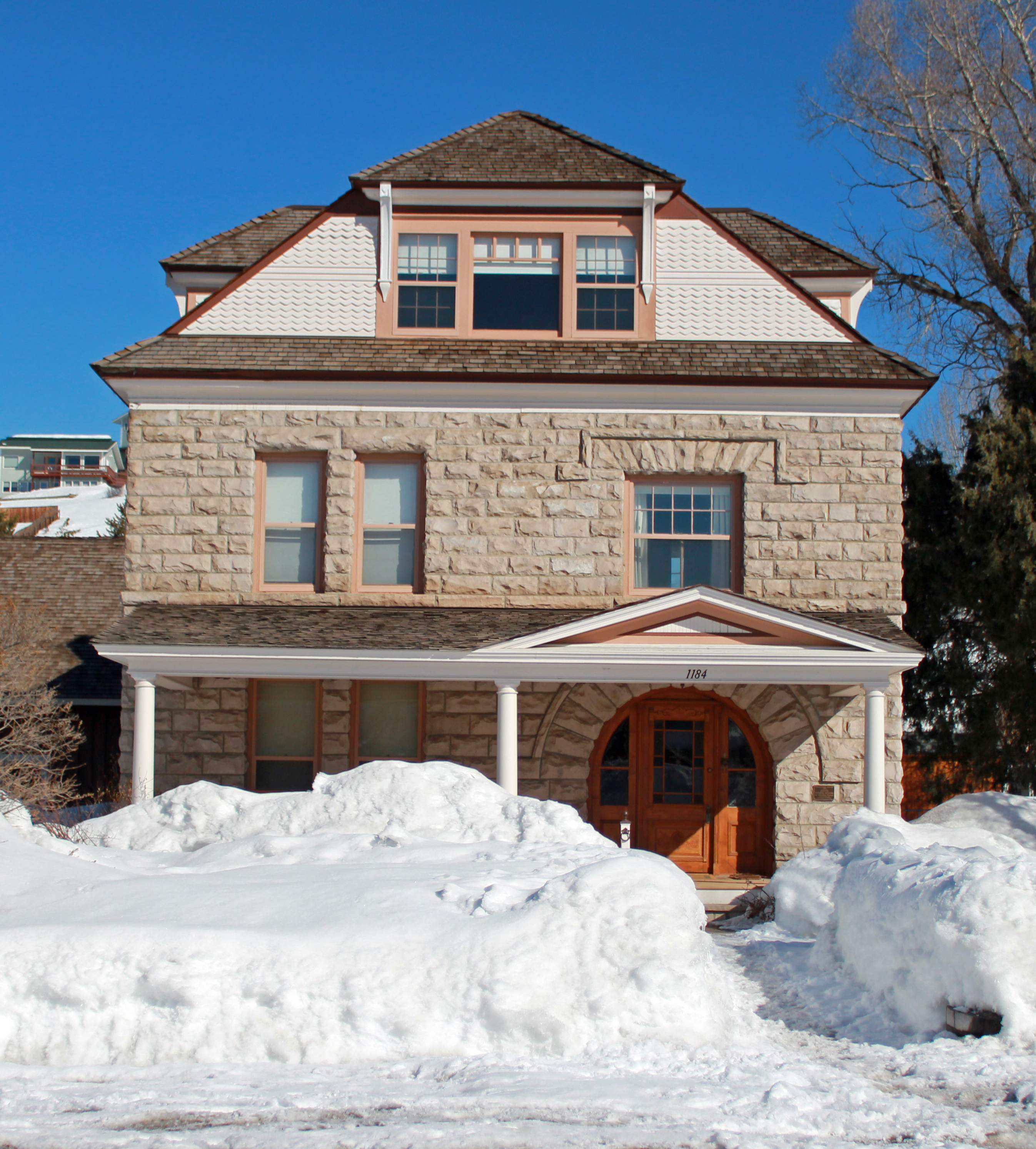 The Crawford House, located at 1184 Crawford Avenue in Steamboat Springs, Colorado. The house is listed on the National Register of Historic Places.